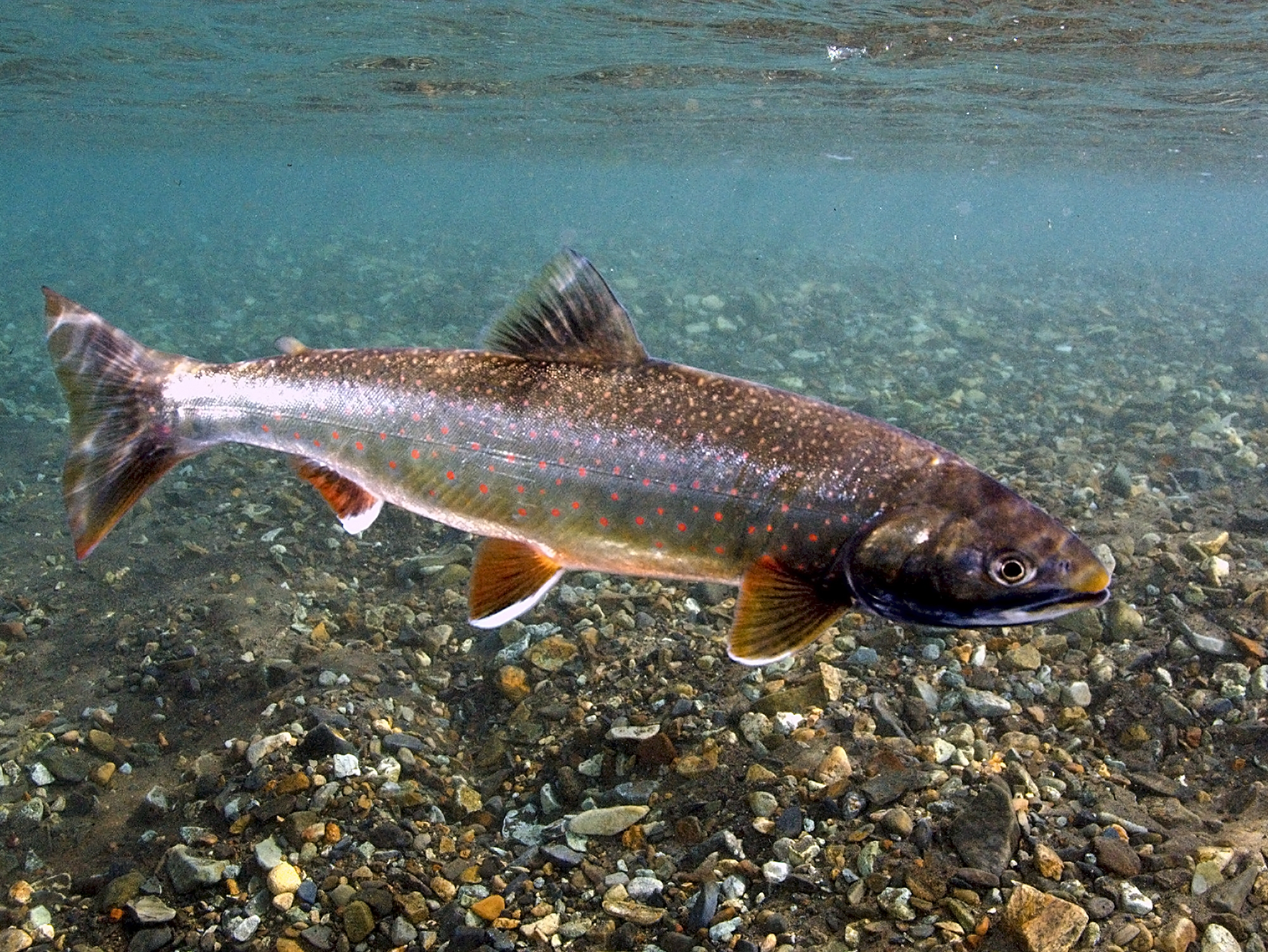 Dolly-Varden- Morgan Bond, U of Washington edit